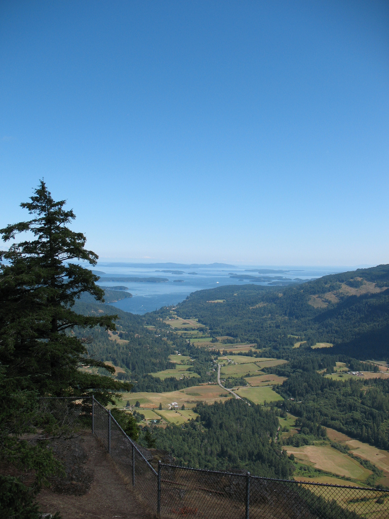 View of Fulford Harbour from Mount Maxwell on Salt Spring Island, British Columbia, Canada